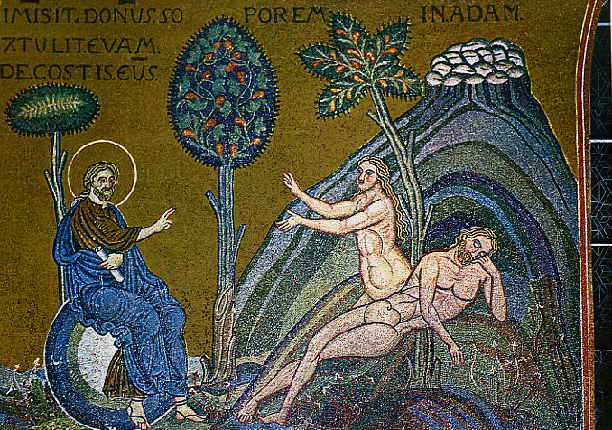 Creation of Eve. Byzantine mosaic in Monreale.